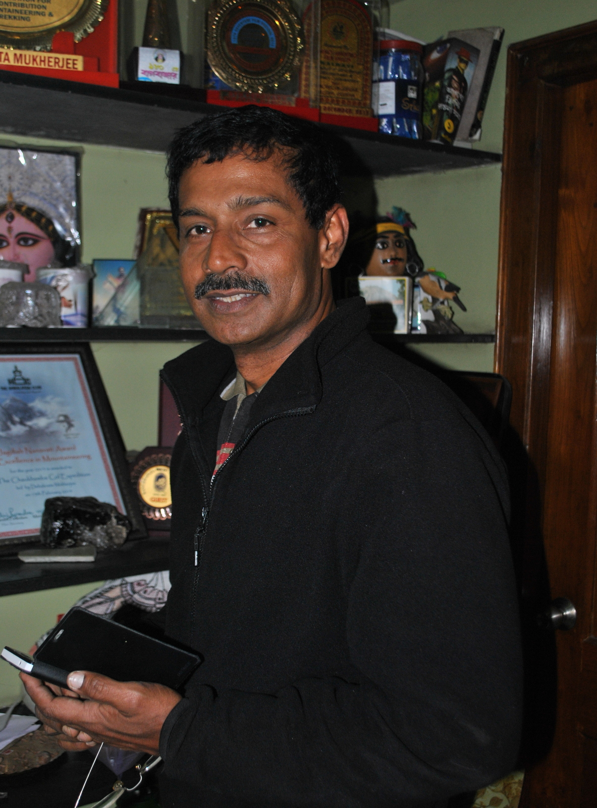 This portrait of Everester Debabrata Mukherjee was taken in his residence in Kolkata, while collecting information for the article about him